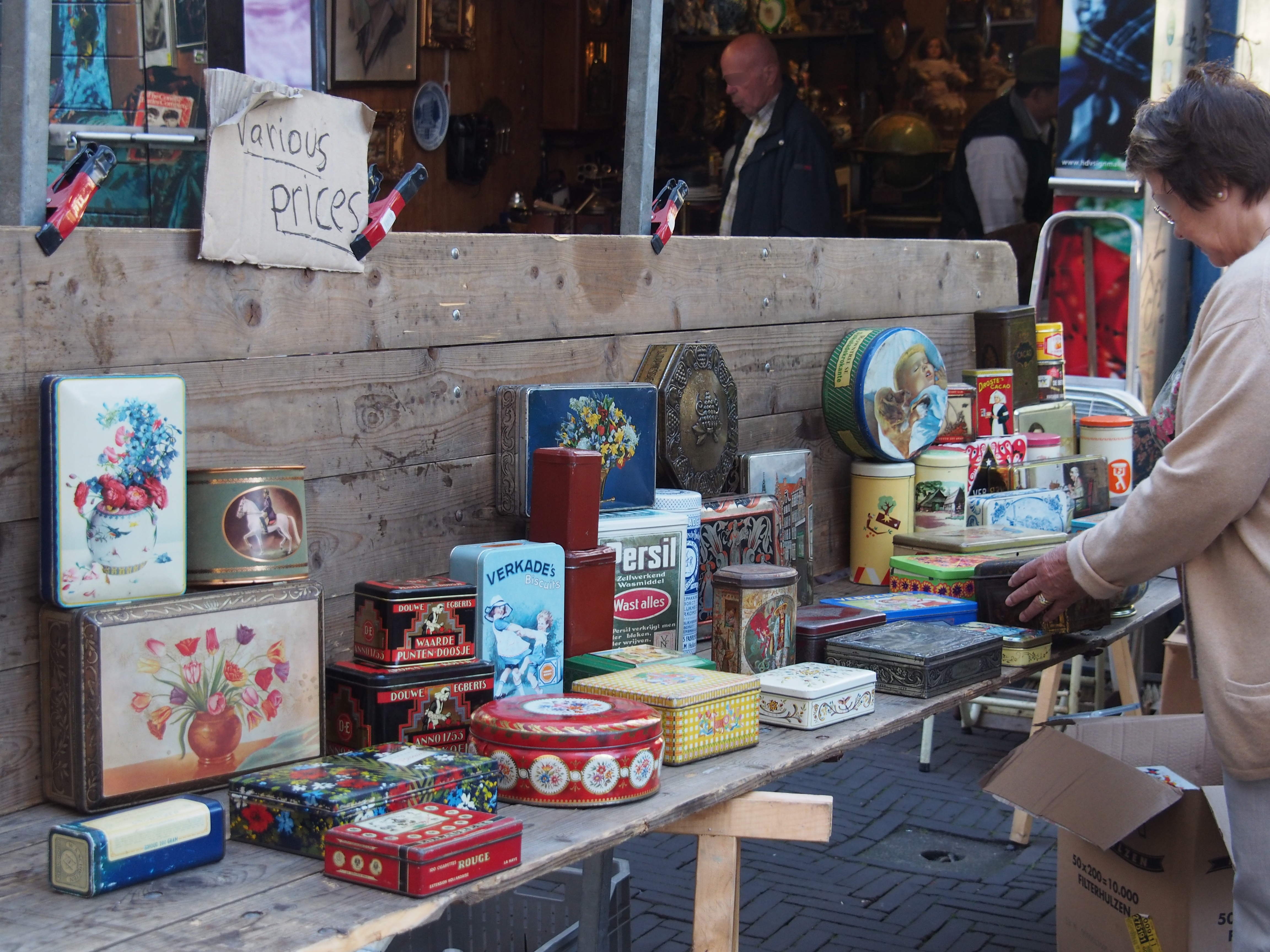 Fleamarket, Waterlooplein, Amsterdam